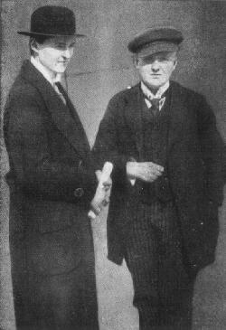 Hedwig W. (left), accompanied by a butch friend. Hedwig was a friend of Magnus Hirshfeld, and lived for two years in Berlin under the name Herbert.